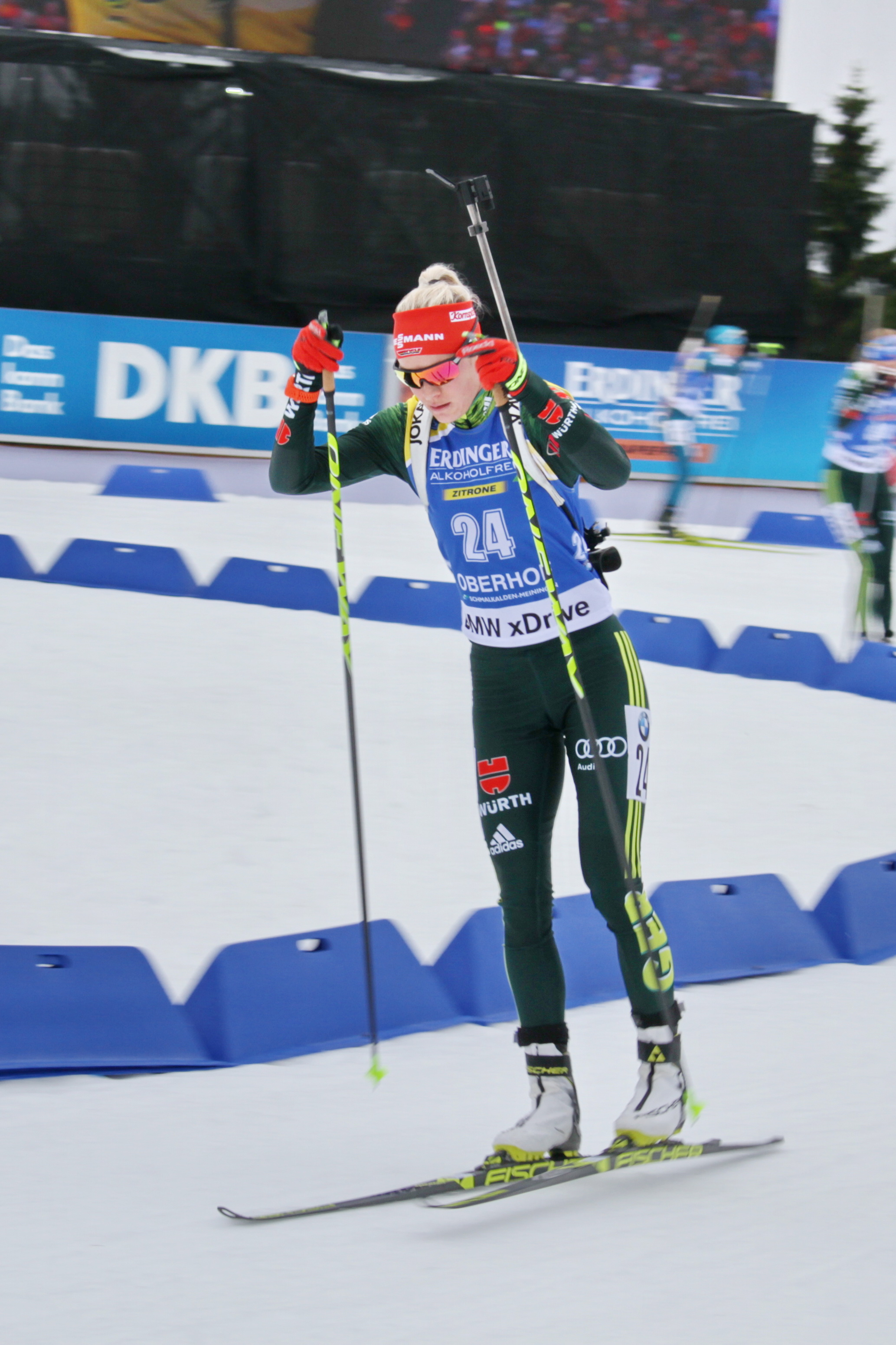 2018 Oberhof Biathlon World Cup - Pursuit Women